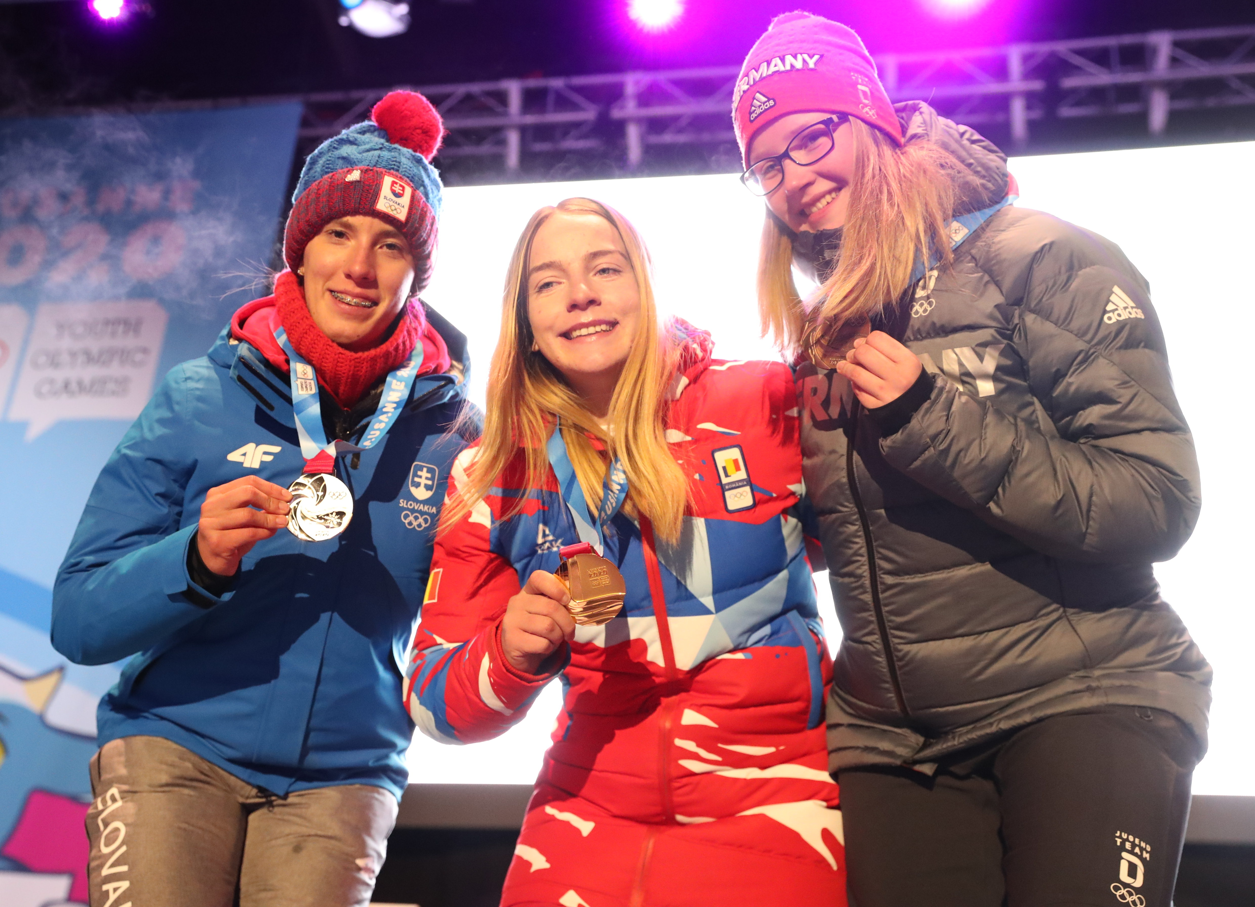 Medal Ceremony Day 11 in St. Moritz, 2020 Winter Youth Olympics in Lausanne